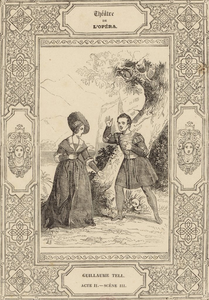 Gioachino Rossini: Guillaume Tell, Act 2 scene 3, Mathilde & Arnold. Cicéri, 1829